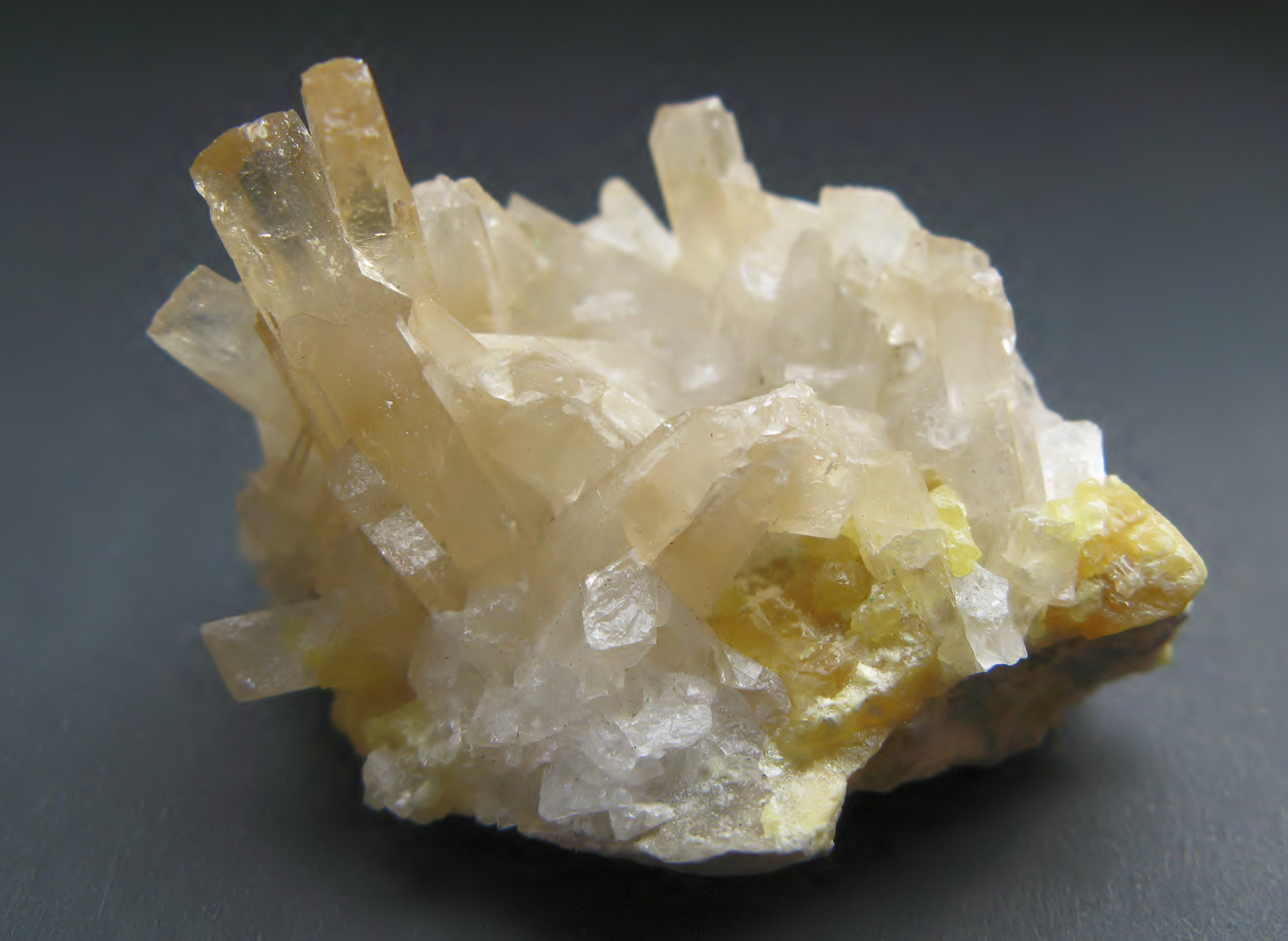 Strontianite, Sulfur Dimensions: 4.0 cm × 3.3 cm × 2.9 cm Locality: Machor, Poland Description: Colorless to white, prismatic strontianite crystals with some sulfur (yellow)